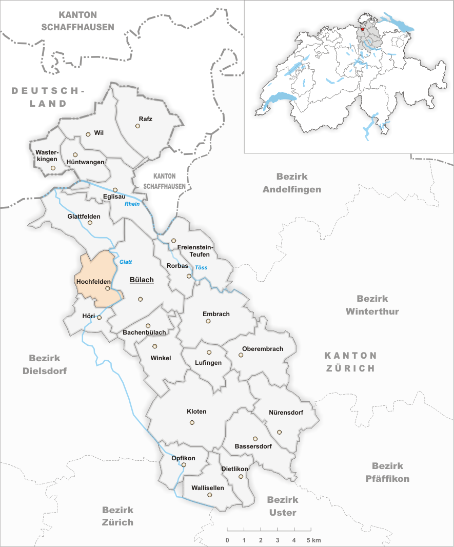 Municipality Hochfelden